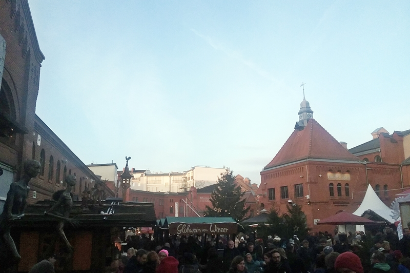 At the Lucia Christmas market in Berlin-Prenzlauer Berg